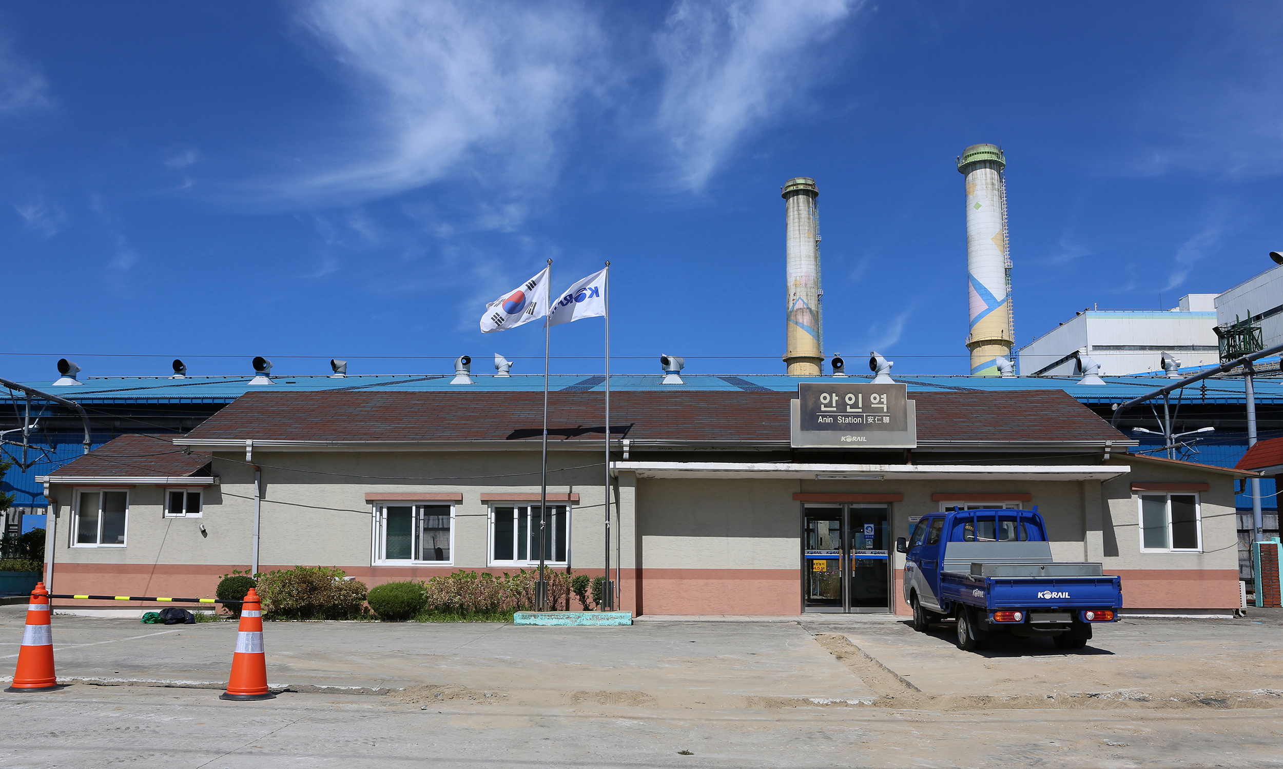 Anin Station at Gangneung, Gangwon Province, South Korea